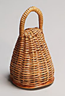 The Brazilian percussion instrument caxixi